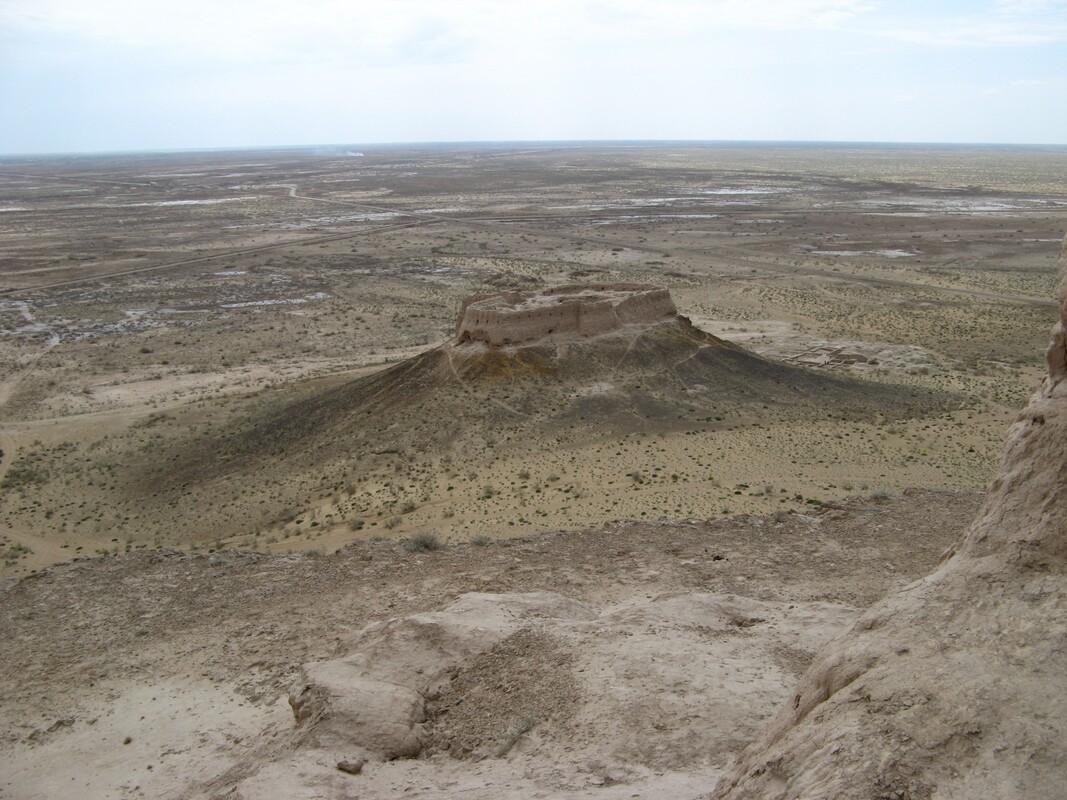 One of Ayaz Kala fortresses, old Khorezm khanate